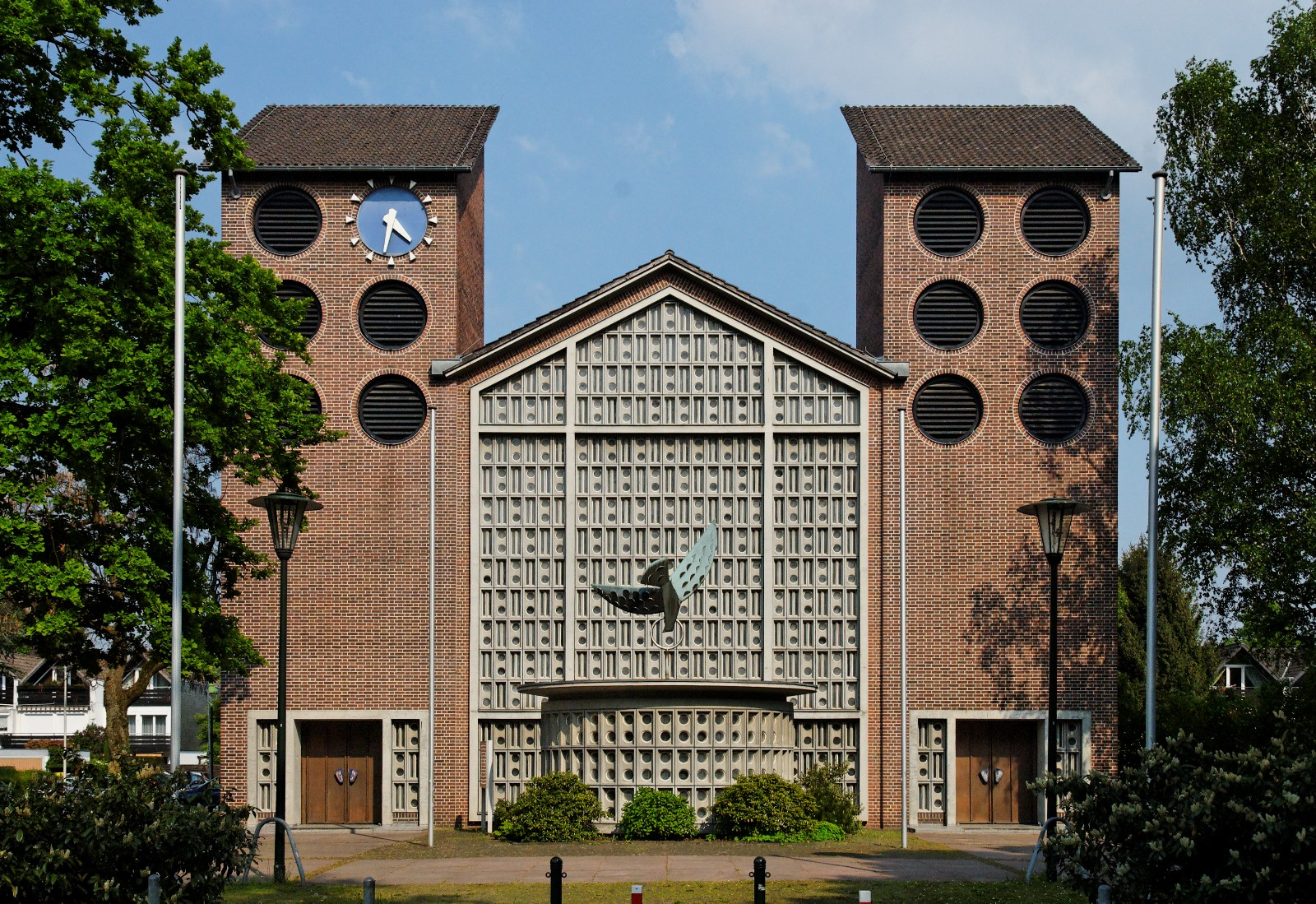 Saint Elisabeth in Düsseldorf-Reisholz, Germany